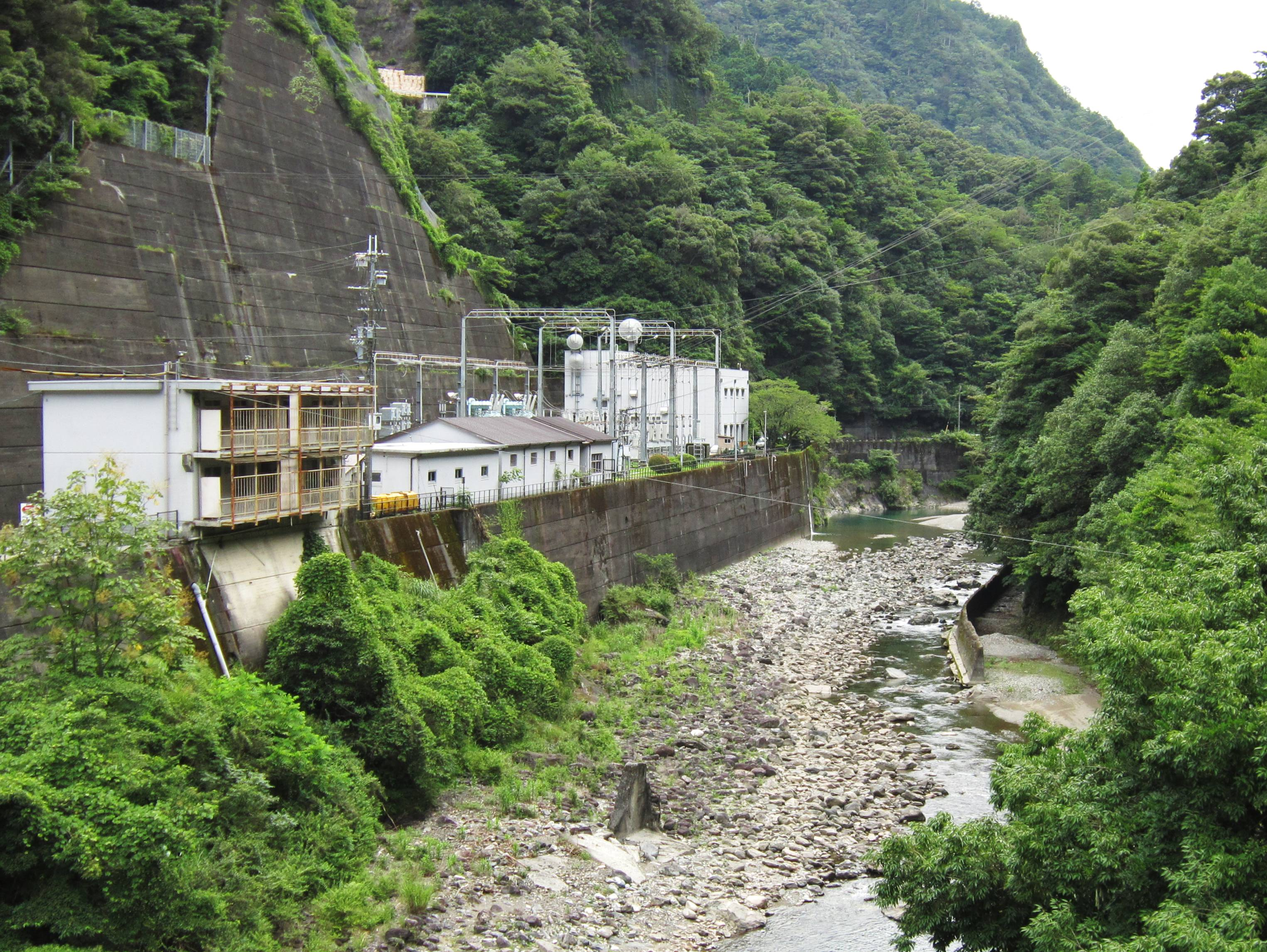 Totsukawa I power station.